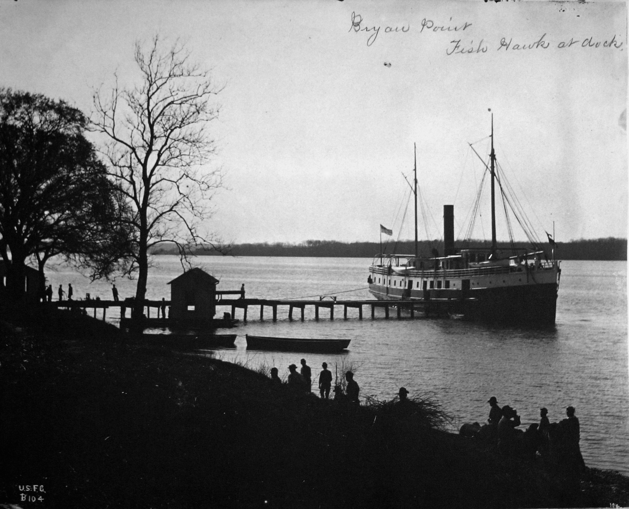 The United States Commission of Fish and Fisheries research ship and floating fish hatchery USFC Fish Hawk in the Potomac River at a pier at Bryan Point, Accokeek, Maryland.